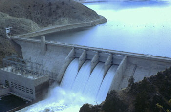 Close up of Canyon Ferry Dam